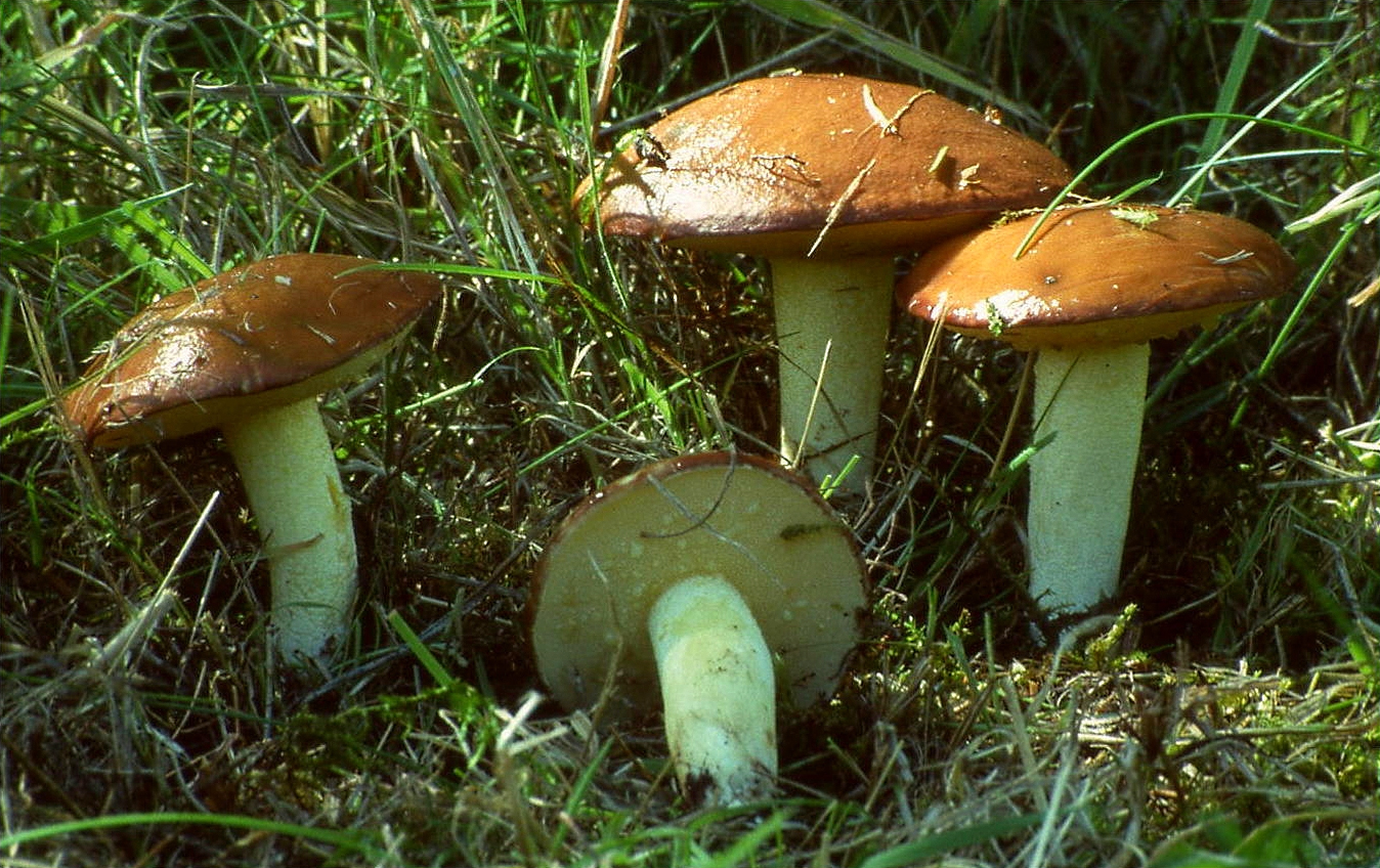 The source of this image is the photographer Frank Gardiner aka Zonda Grattus, who is the sole owner and copyright holder of this photograph and agrees to publish it under the Own Work, Creative Commons Attribution 3.0 License.